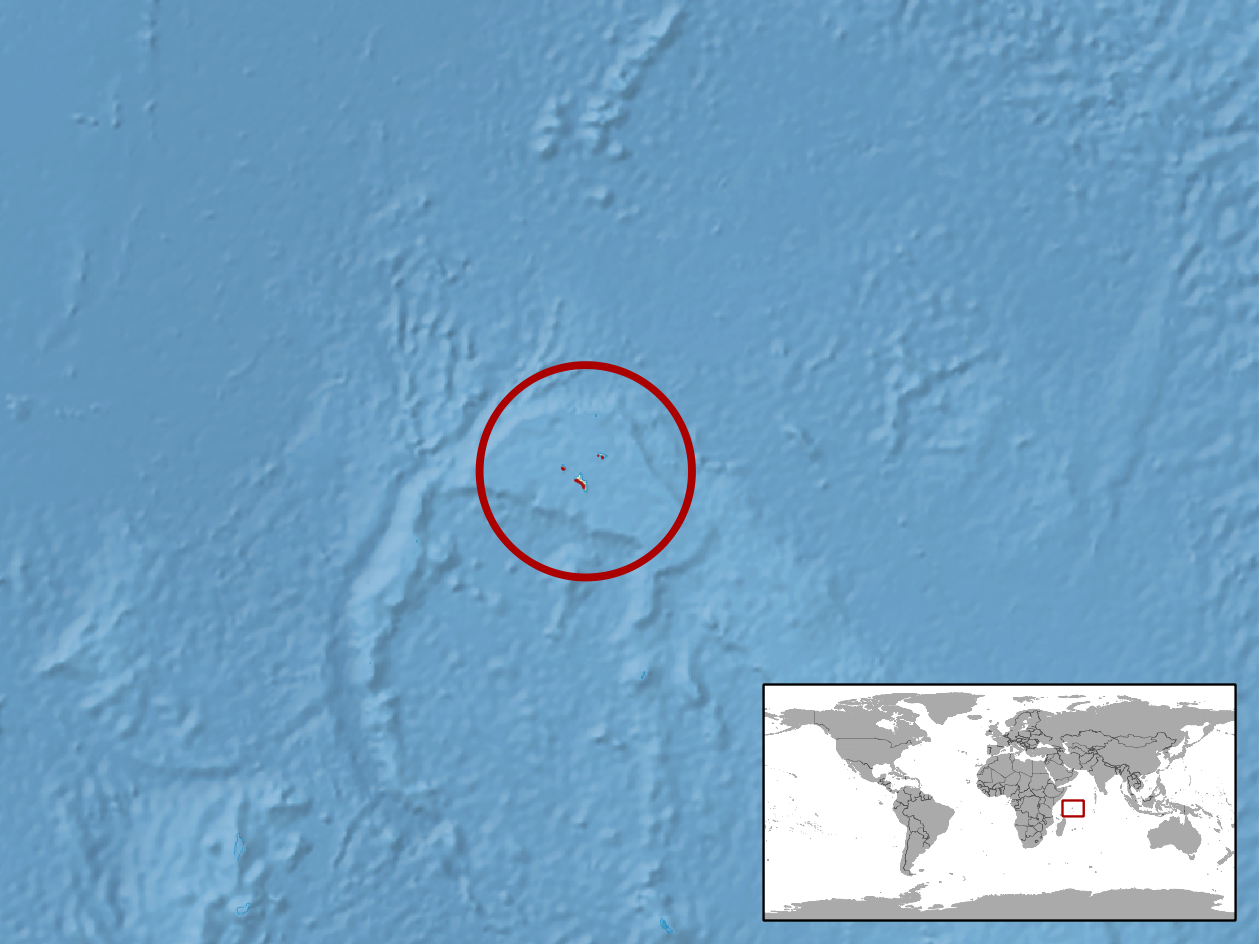 geographic distribution of Archaius tigris syn Calumma tigris (Native: Seychelles)